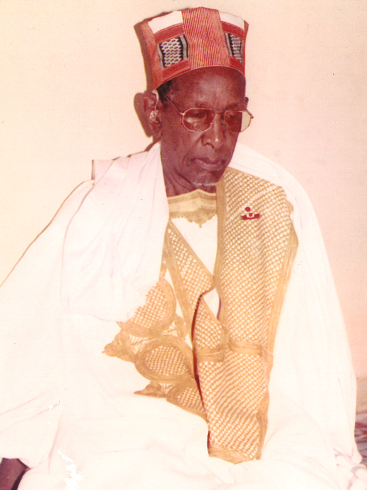 Thierno Abdourahmane Bah in 1990